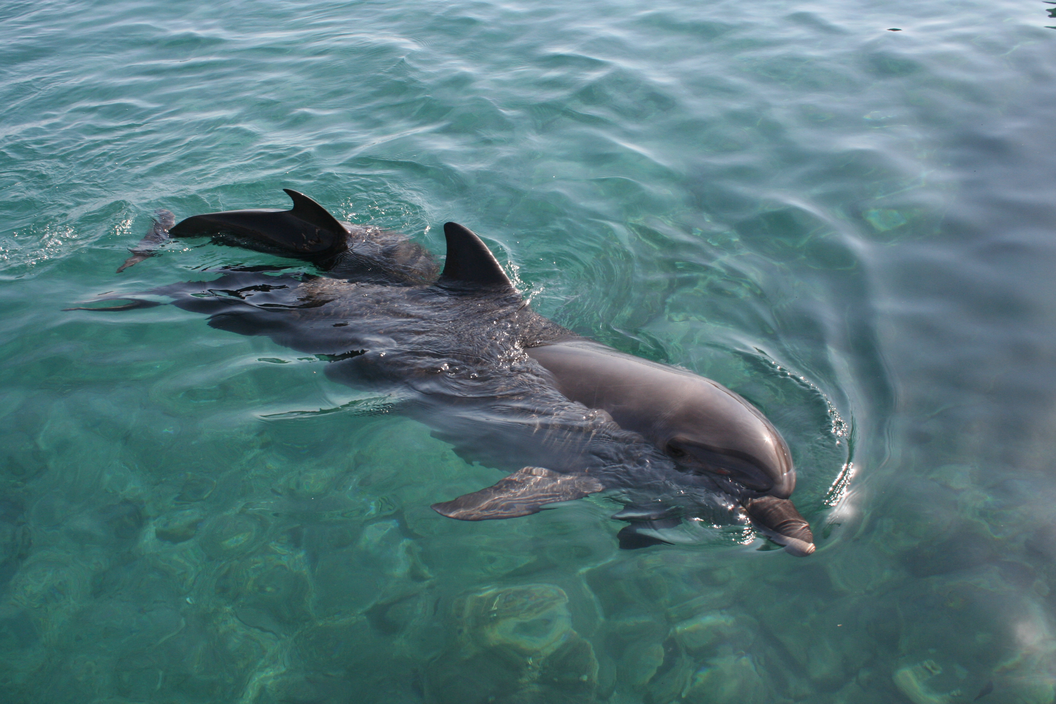 Description: Eilat - Dolphins reef Source: Own photo. Israel, 2006 Photographer: Faraj Meir (Faraj), France Image:Eilat_-_Dolphin_reef.jpg